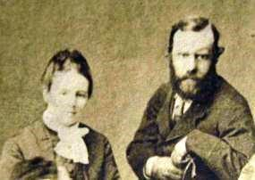 Theodore Roosevelt, Sr., and Martha Bulloch Roosevelt.